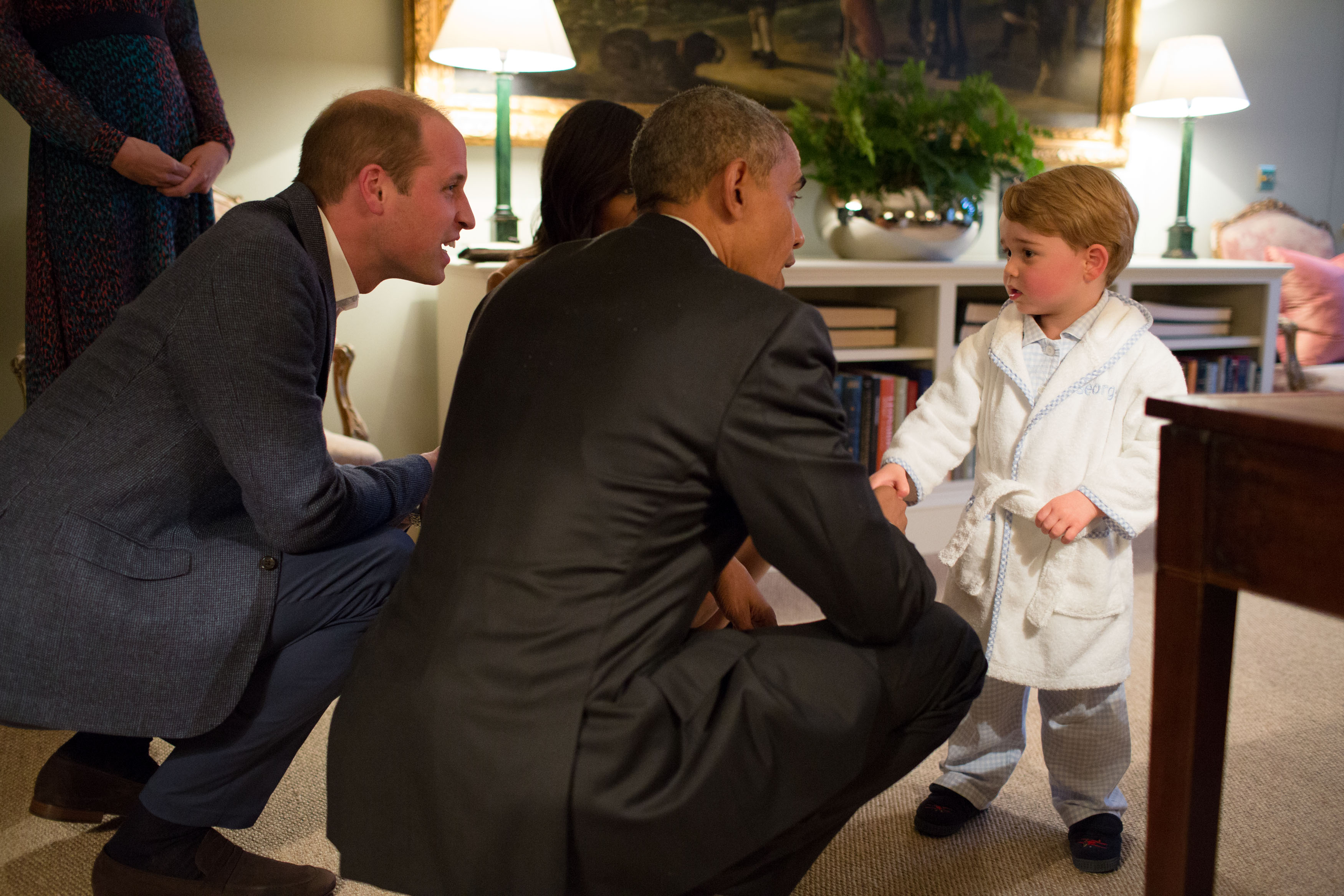 President Barack Obama with First Lady Michelle Obama meets Prince George as the Duke and Duchess of Cambridge watch at Kensington Palace in London, April 22, 2016. (Official White House Photo by Pete Souza)